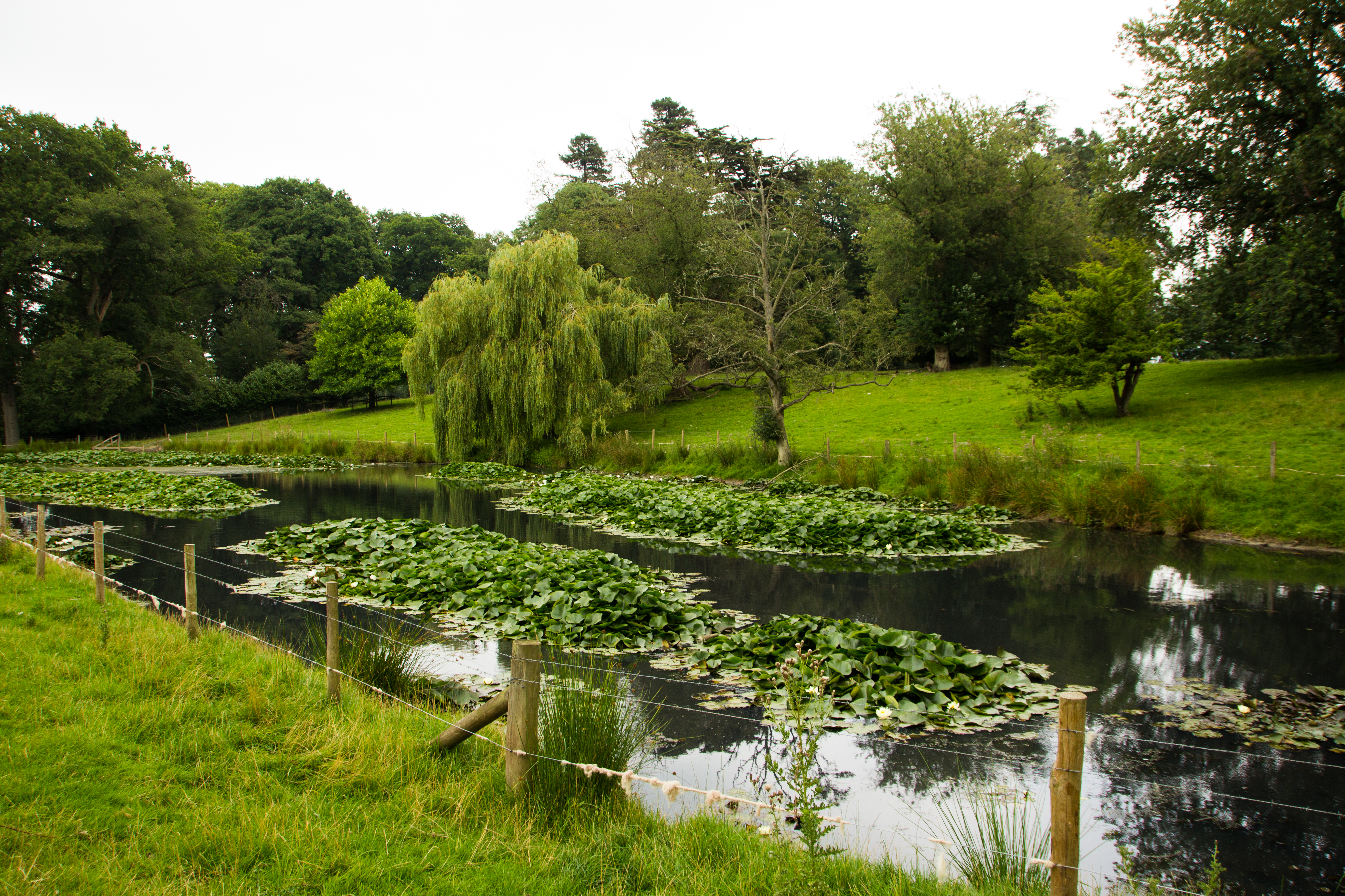 Pond and parkland adjacent to Powis Castle, Welshpool